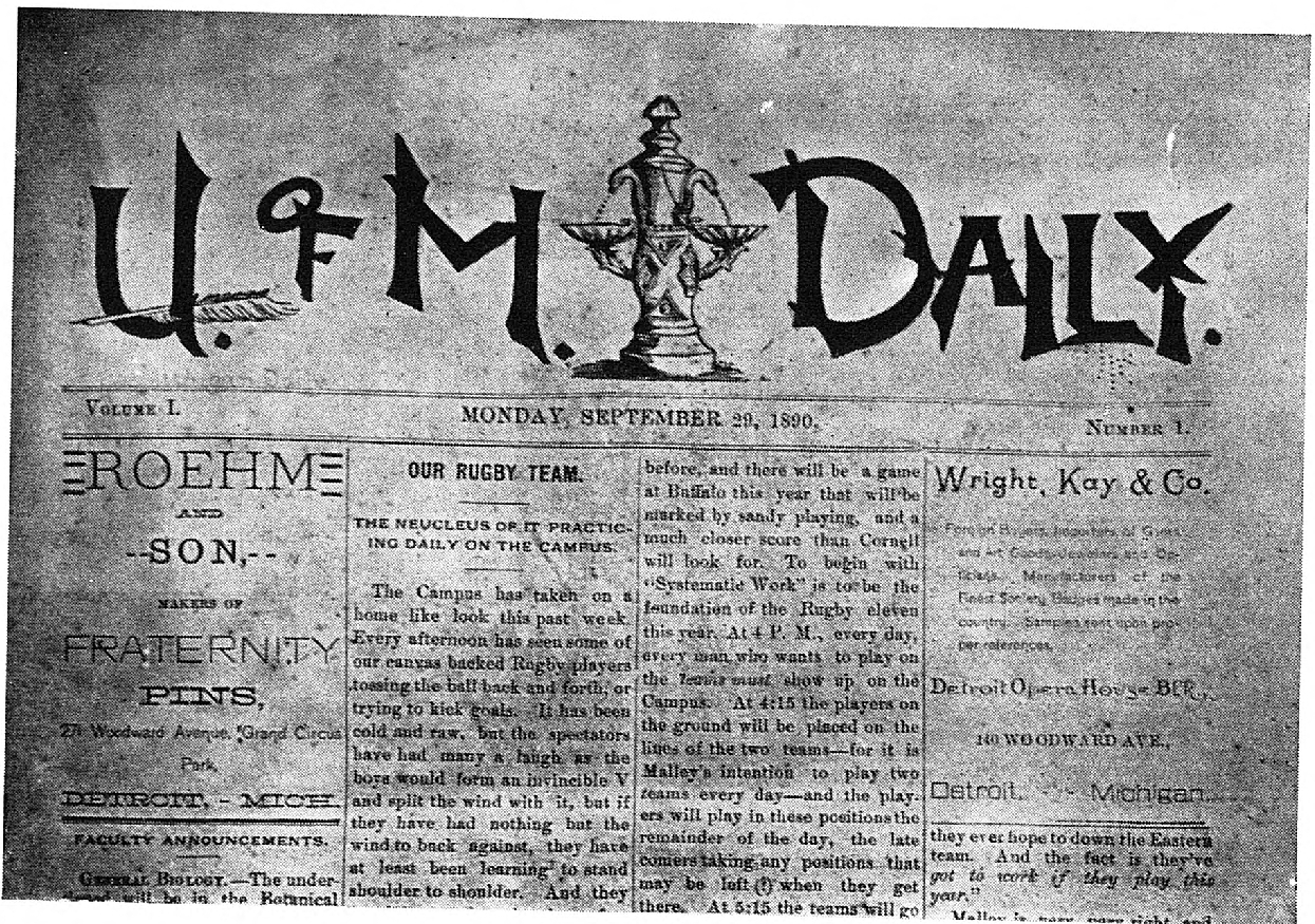 Photograph of front page of the first issue of The Michigan Daily, Sept. 1890